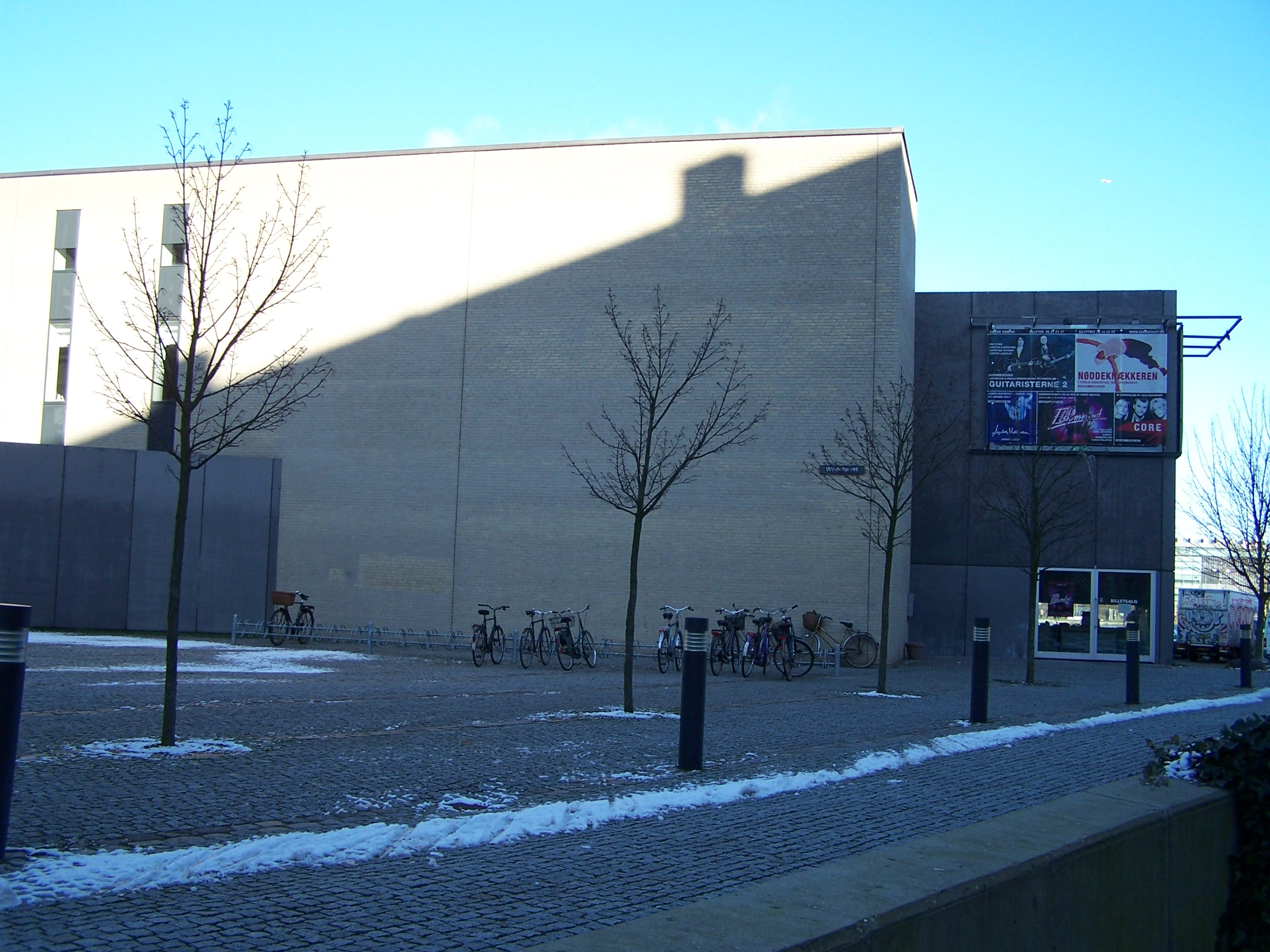 Øster gaværk Theatre, new building